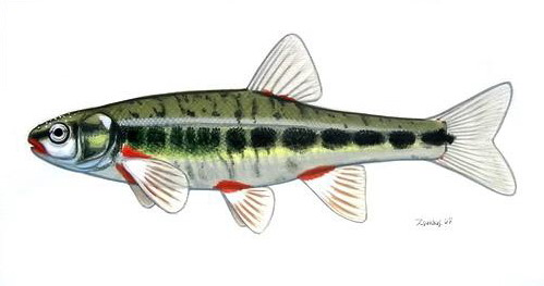 Common minnow (Phoxinus phoxinus).